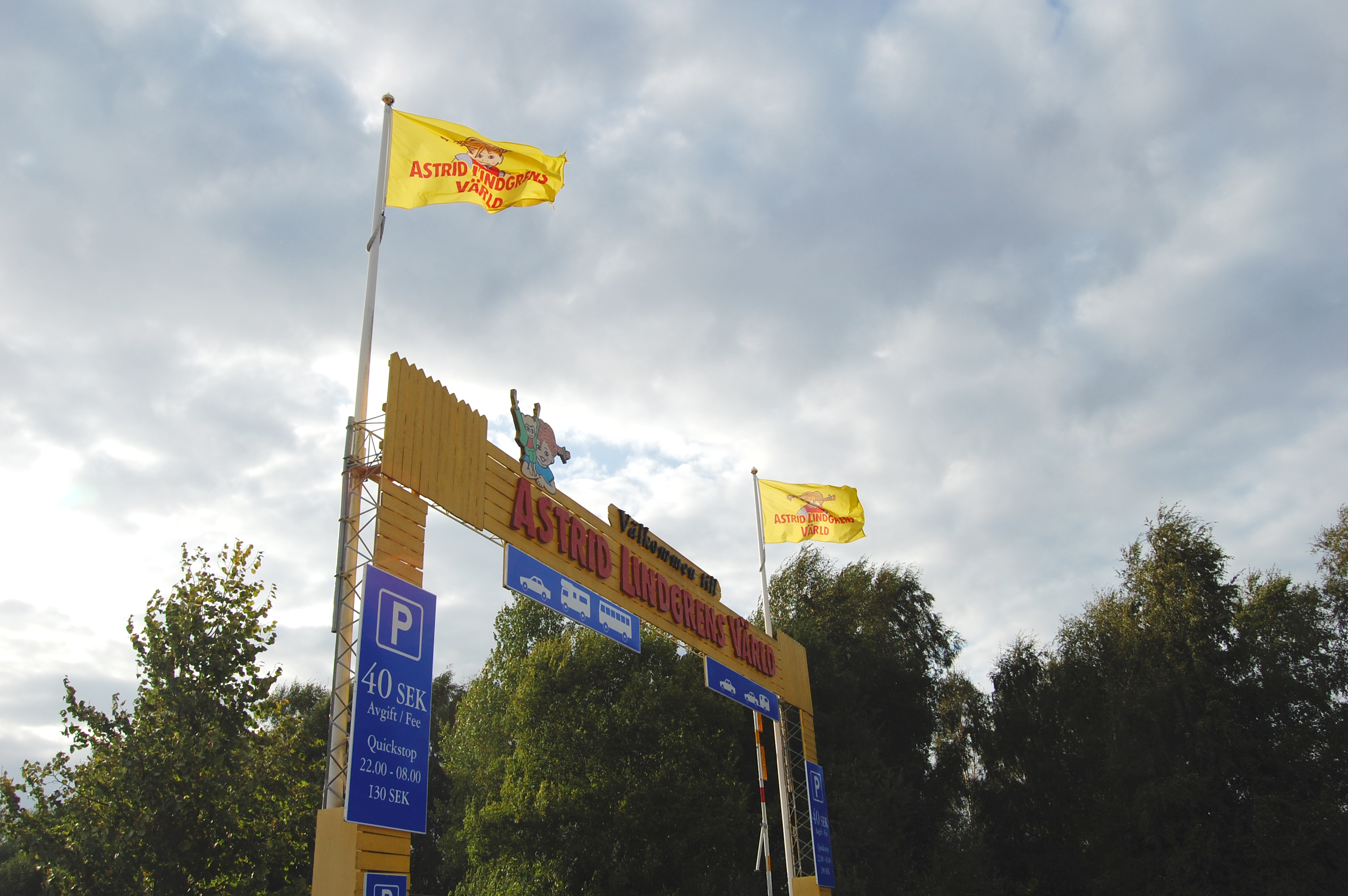 Entrance of World of Astrid Lindgren